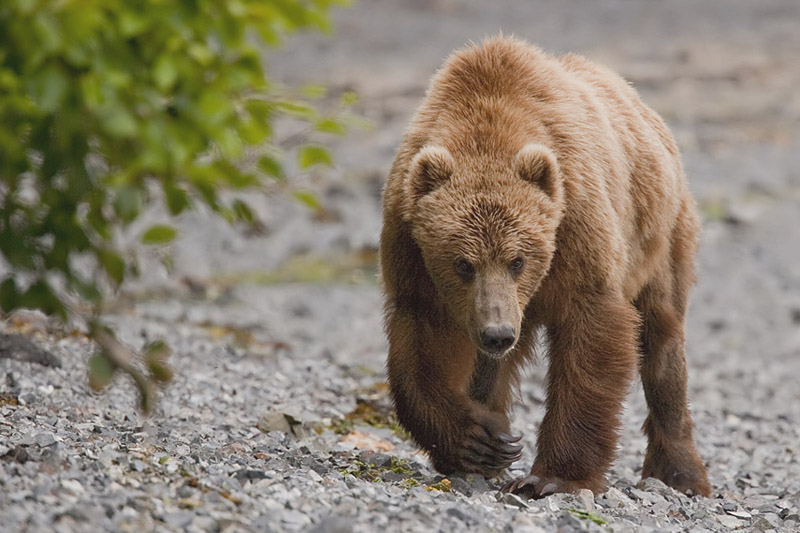 This is a photograph of a Kodiak bear that I photographed on Kodiak island in 2010